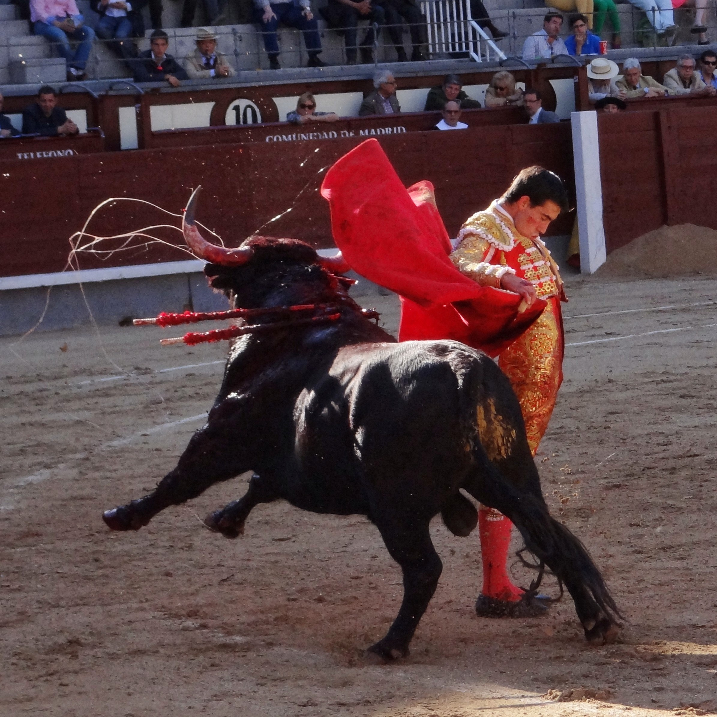 Bullfighting, tercio de muleta: Toreando with the banderillas on the back of the bull.